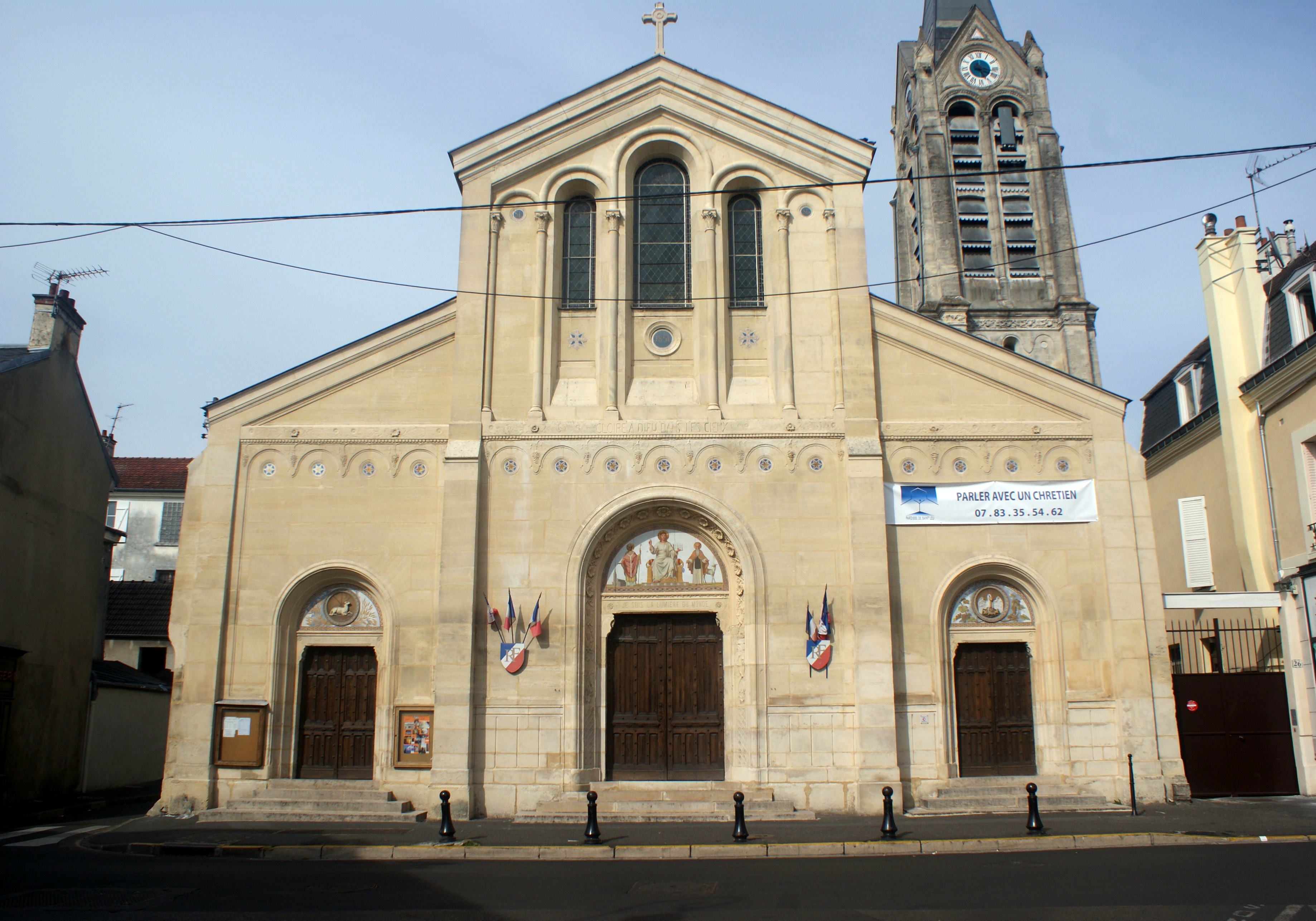 Saint-Leu-Saint-Gilles church with crypte family Bonaparte